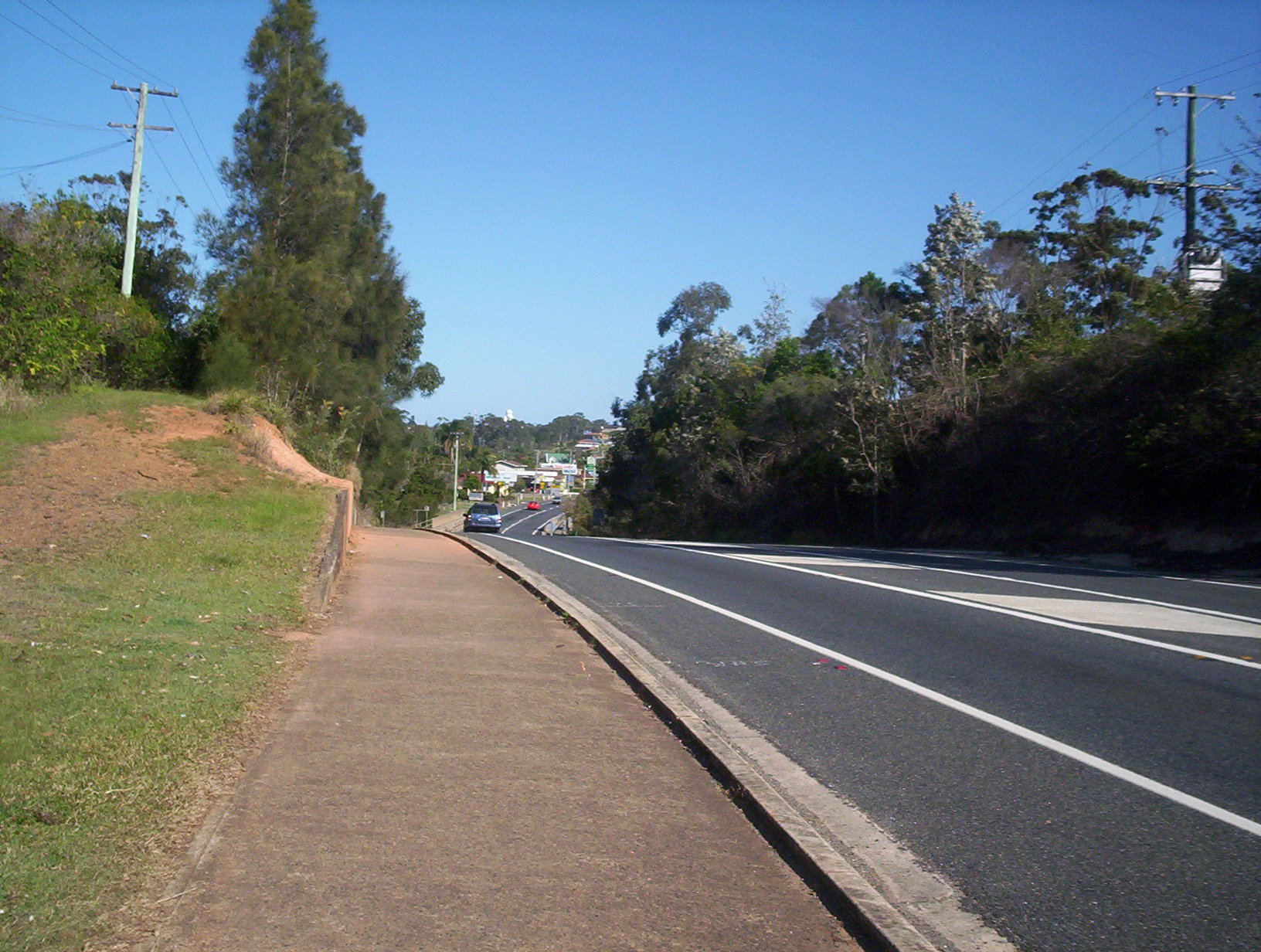 Taken by me, 2005. Shot of the Pacific Highway as it crests the hill into Woolgoolga from the north.